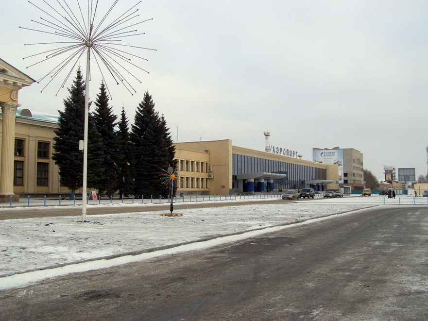 Chelyabinsk (Balandino) Airport Main Building